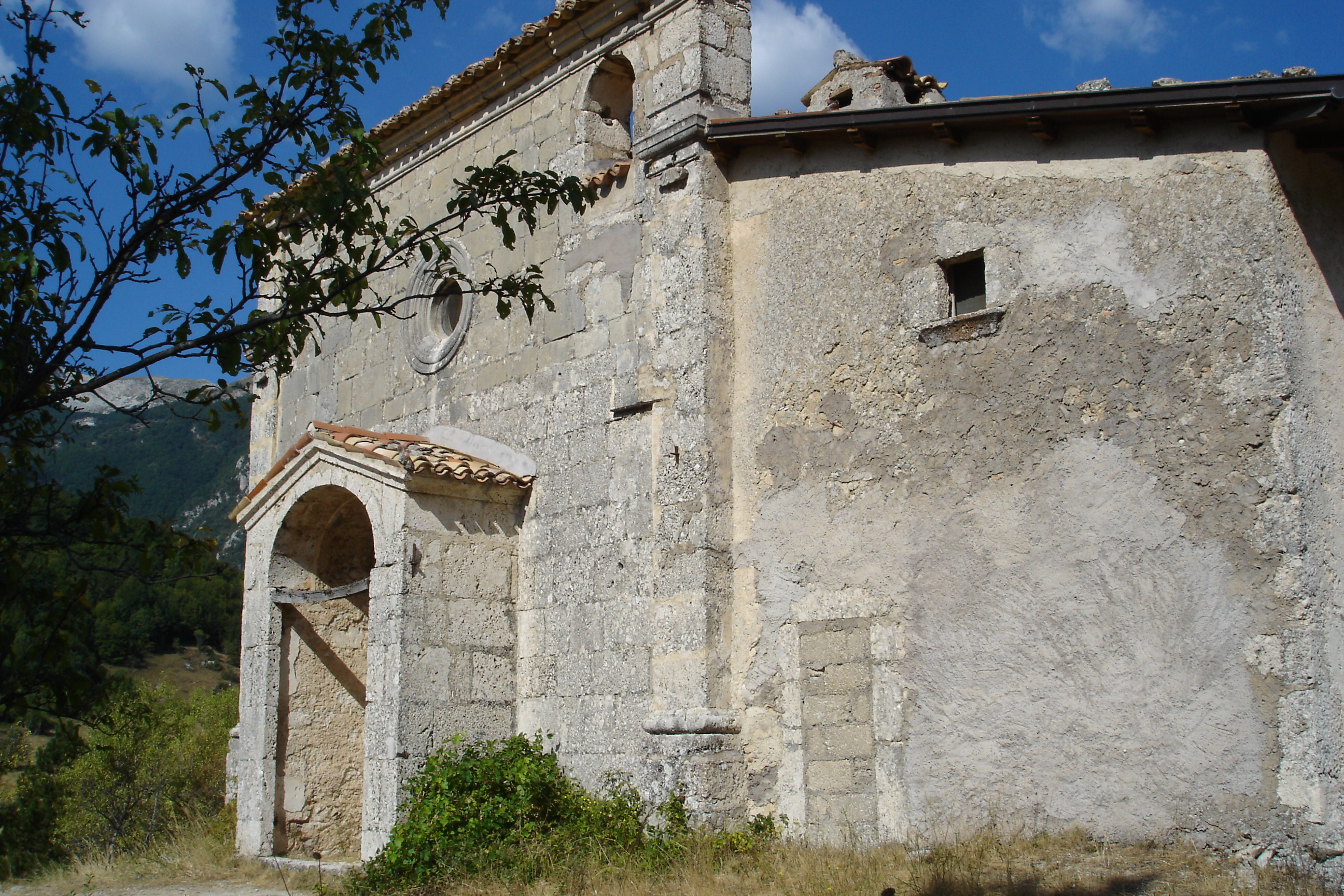 St. Giles Ermitage in Scanno